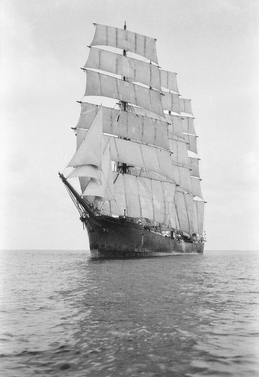 In the lee of the port bow of the 'Parma' while becalmed Reproduction ID: N61346 Alan Villiers (1903–1982) Alternative namesAlan John VilliersDescriptionAustralian photographer, journalist and writerDate of birth/death23 September 19033 March 1982Location of birth/deathMelbourneOxfordWork period1919-1980Work locationAustralia, United KingdomAuthority control : Q202250 VIAF: 9969093 ISNI: 0000 0001 1467 6245 LCCN: n50014468 NLA: 35582268 GND: 122434919 WorldCat Villiers collection